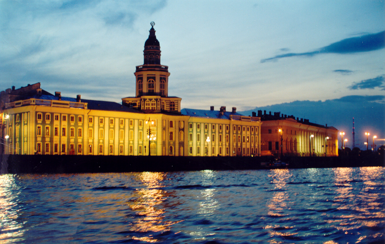 Saint Petersburg, Russia - White Nights with Kunstkammer